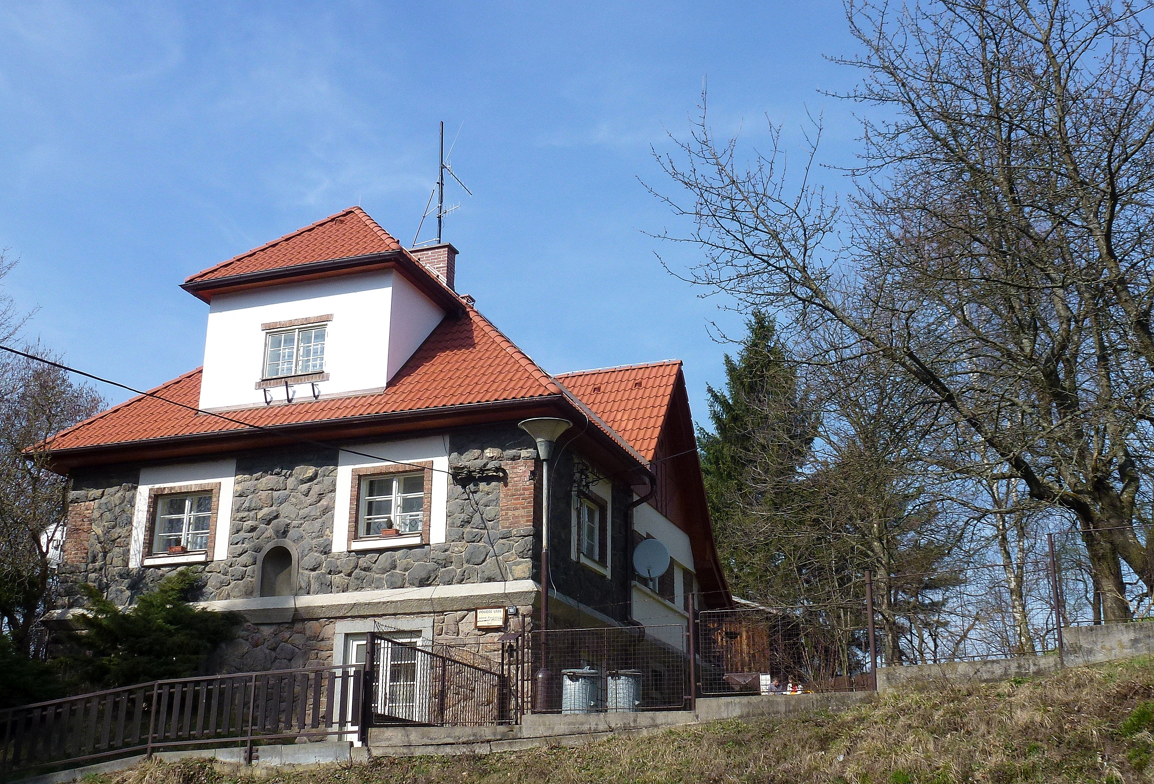 Sečská dam. House of the manager of water reservoir Seč, author of project the house is architect Adolf Brzotický (1888–1956). Photo location: Czech Republic, Pardubice Region, town Seč, Seč Dam, "Kameničská" highlands.